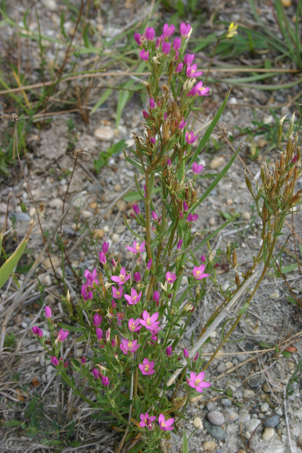 Centaurium littorale